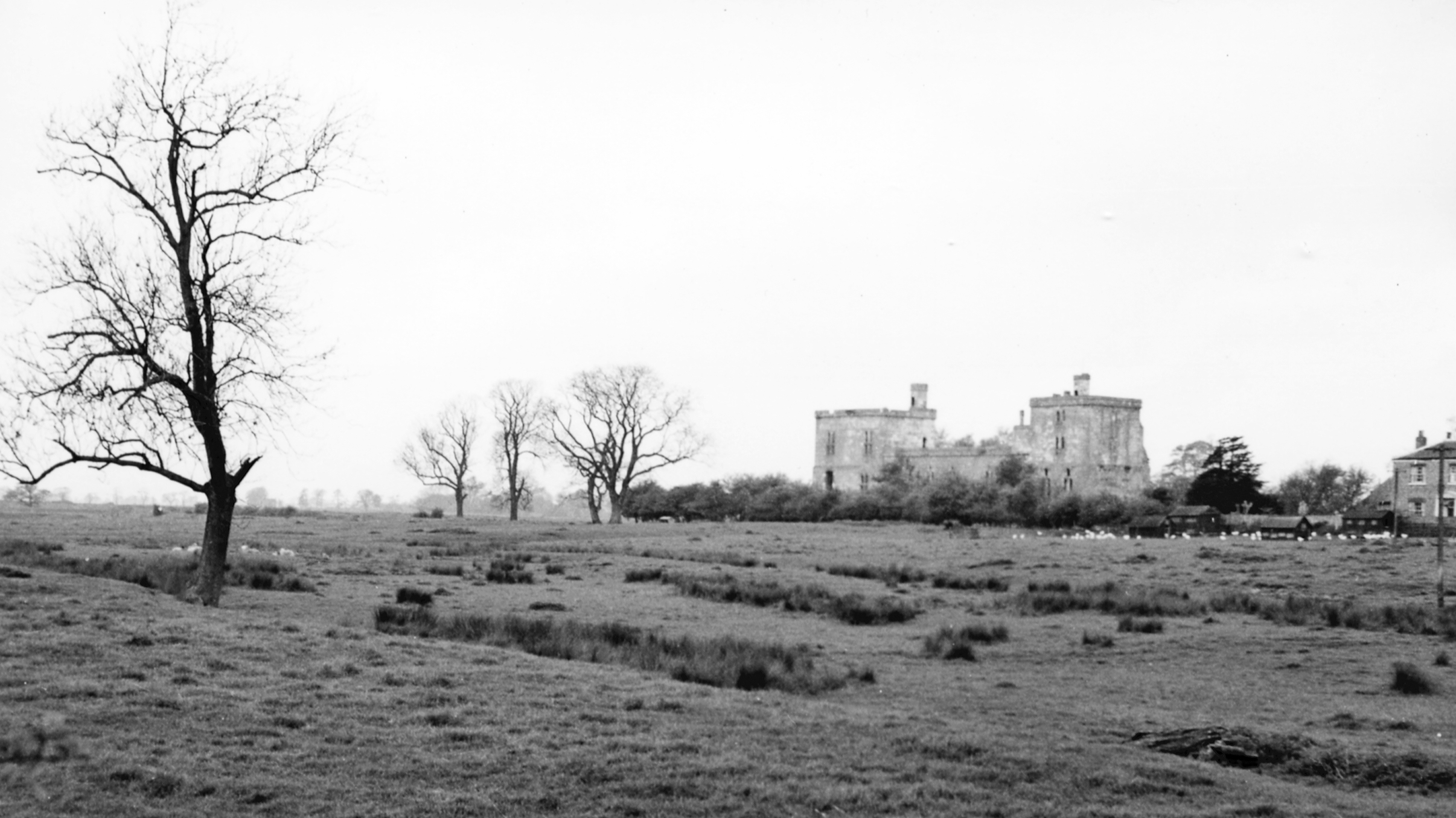 Wressle Castle, Wressle, East Riding of Yorkshire, England.By River Derwent 1961. View NW.